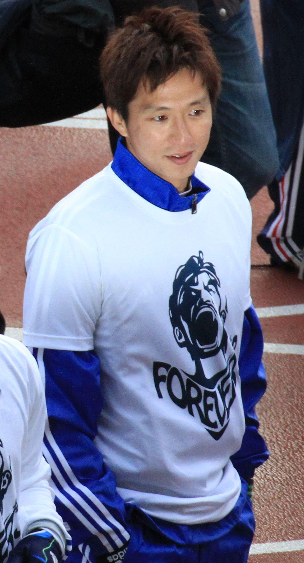 Takashi Fukunishi (Naoki Matsuda Memorial Game)